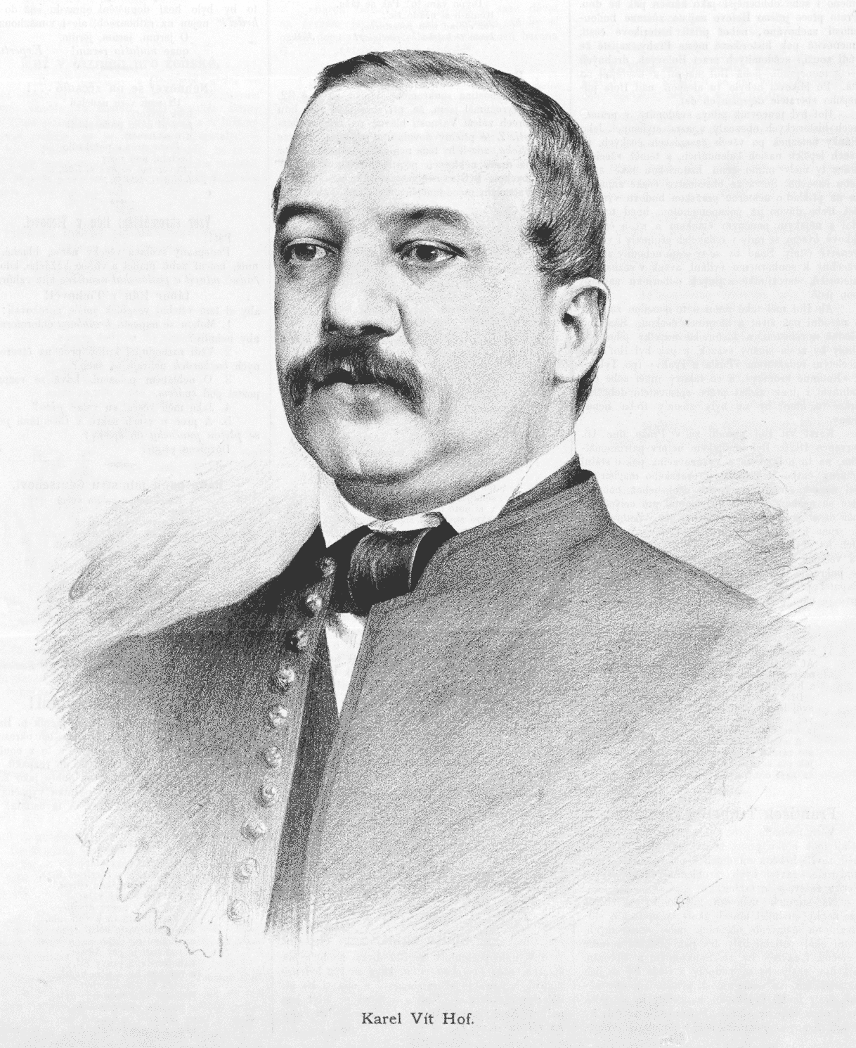 Portrait of Karel Vít Hof (1826-1887), Czech historian, journalist and writer.